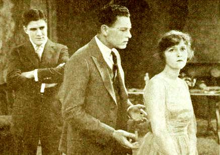 Still from the American film Day Dreams (1919) with Jere Austin, John Bowers, and Madge Kennedy, on page 200 of the January 11, 1919 Moving Picture World.